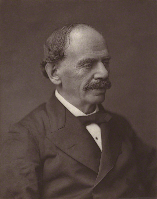 German conductor and composer Sir Julius Benedict (1804-1885)